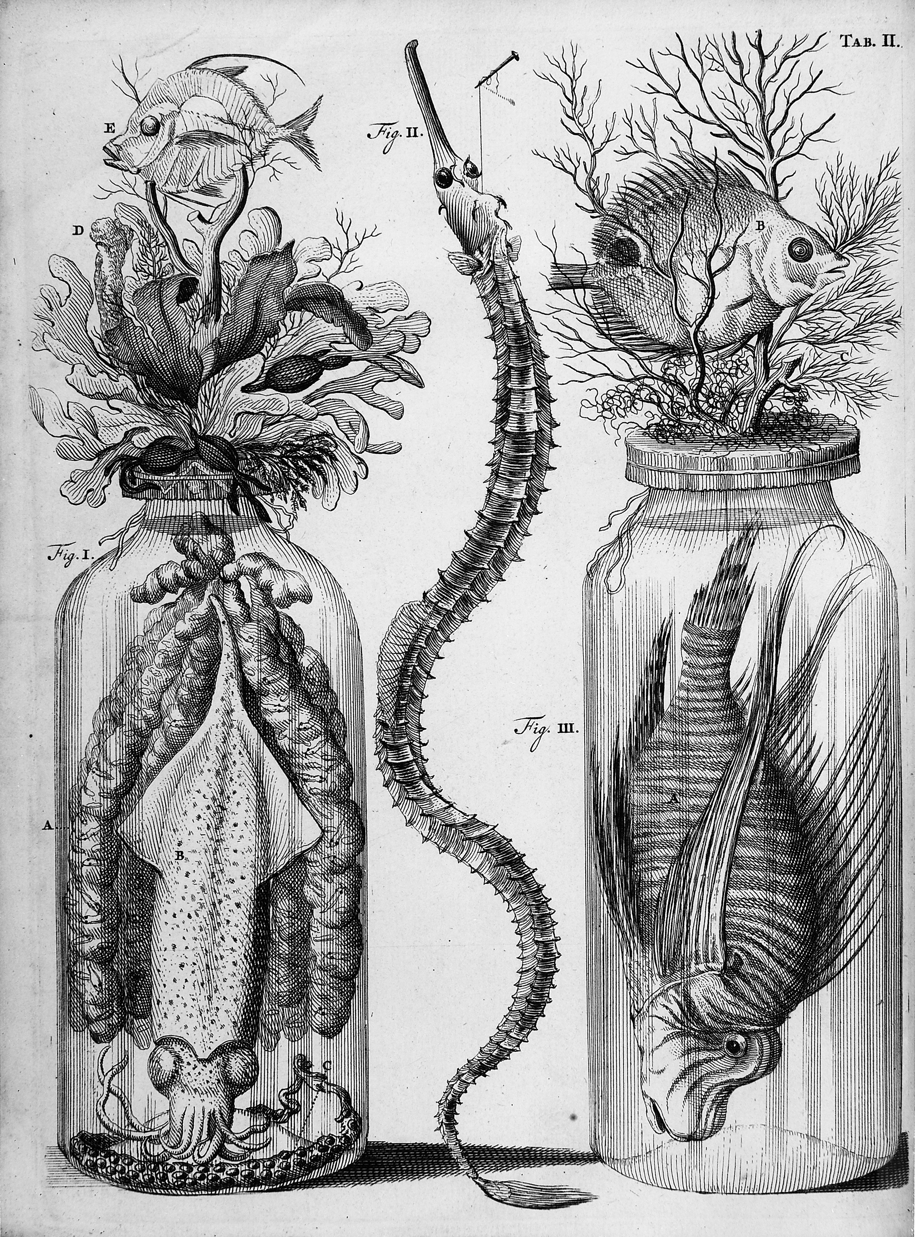 Botanical and zoological preparations including the Loligo with with eggs Rare Books Keywords: Embryology